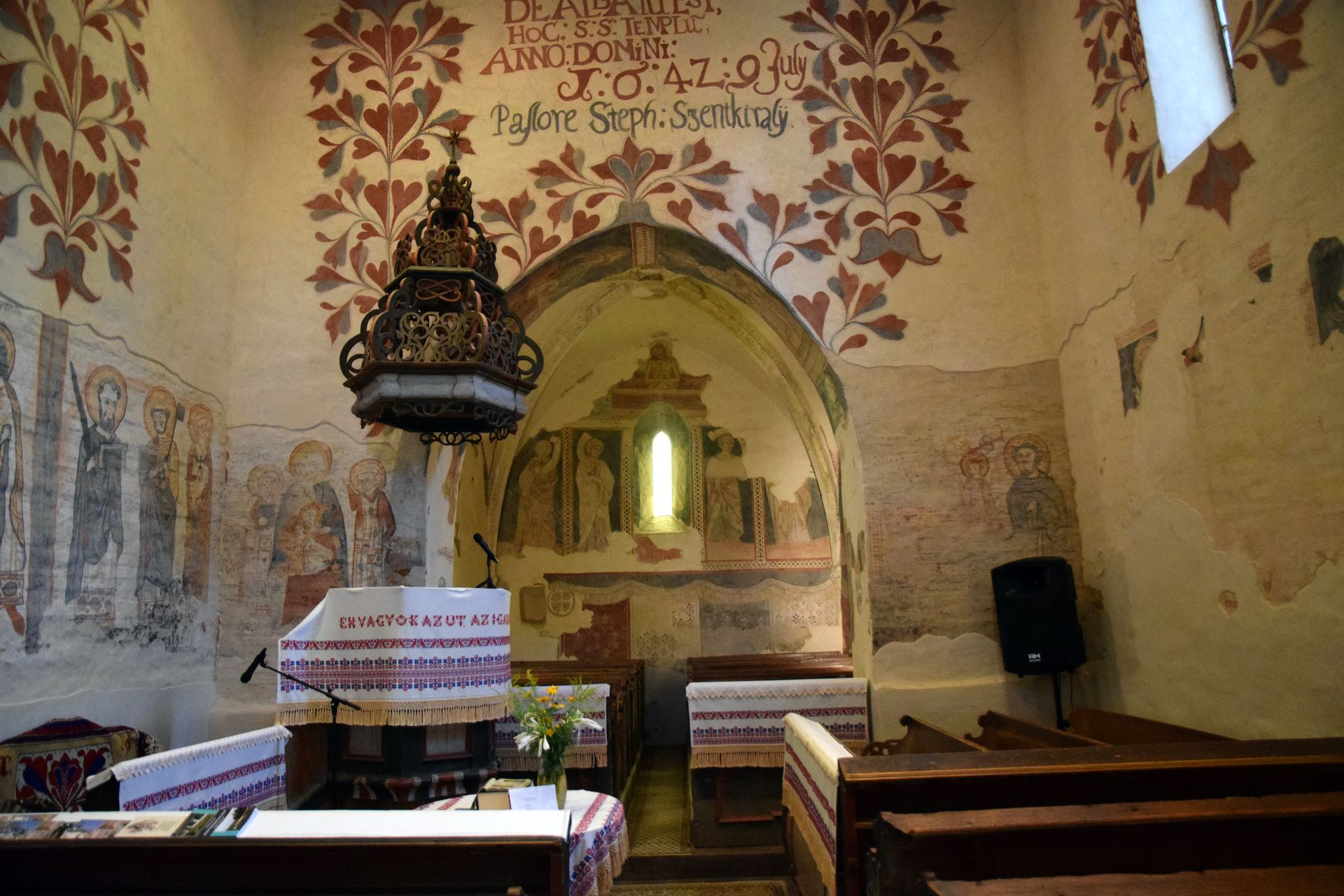 Csaroda, church